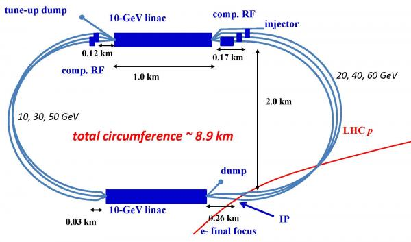 Proposed layout of the recirculating linear accelerator complex for LHeC. A 500-MeV electron bunch coming from the injector is accelerated in each of the two 10-GeV SC linacs during three revolutions, after which it has obtained an energy of 60 GeV. The 60-GeV beam is focused and collided with the proton beam. It is then bent by 180° in the highest-energy arc beam line before it is sent back through the first linac, at a decelerating RF phase. After three revolutions with deceleration, re-converting the energy stored in the beam to RF energy, the beam energy is back at its original value of 500 MeV, and the beam is disposed in a low-power 3.2-MW beam dump.